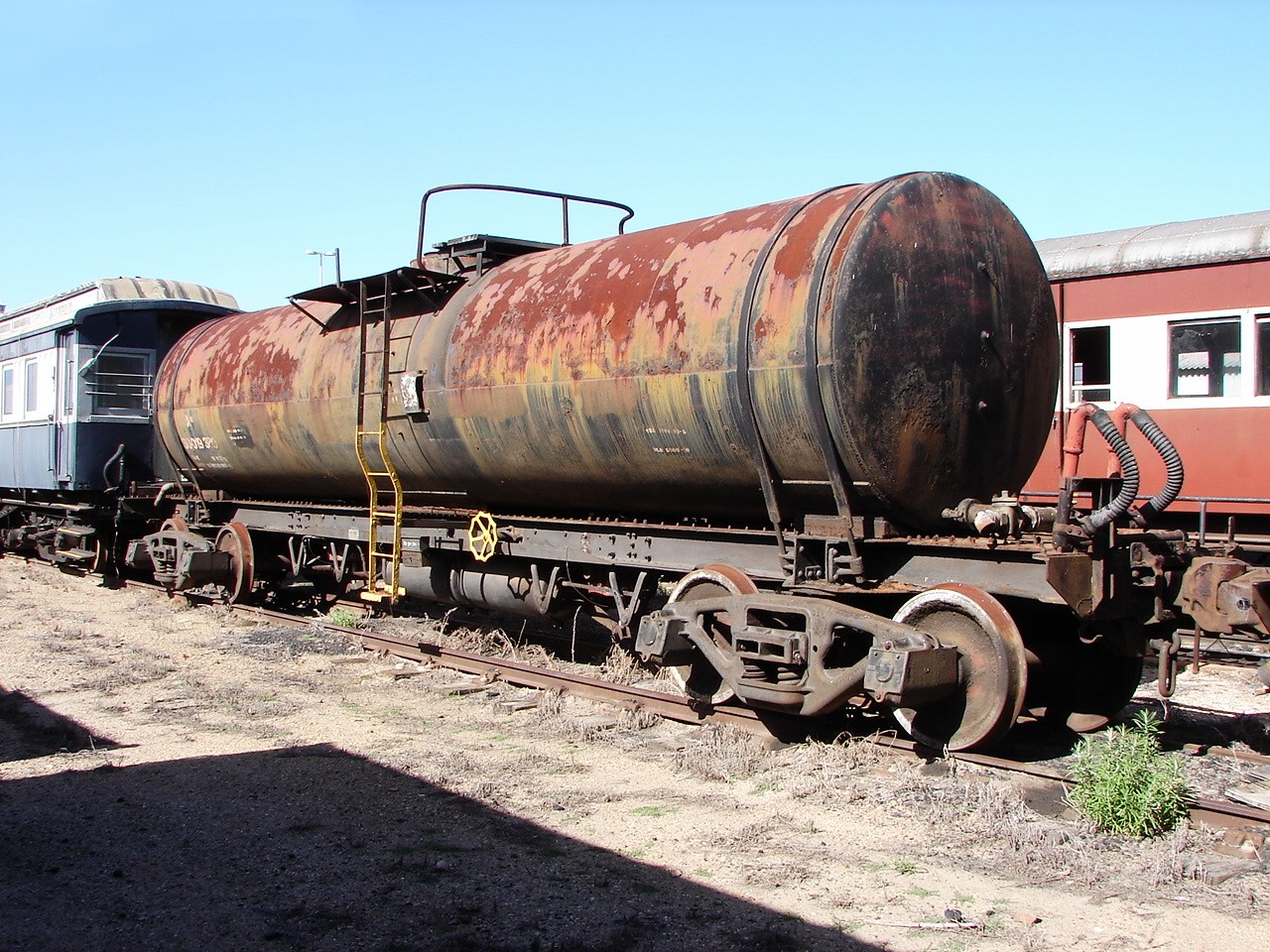 Type X-17 water tender no. 30 019 389 X-17, for use with Classes GM, GMA (1st batch) and GO GarrattsLocation: Voorbaai, Mosselbaai